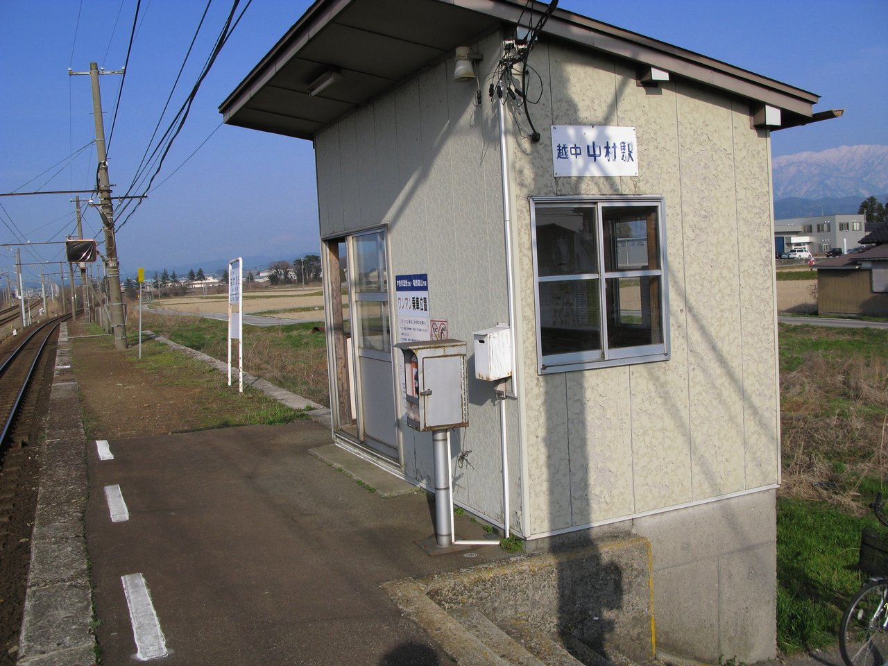 Toyama Chiho Railway Etchu-Nakamura Station